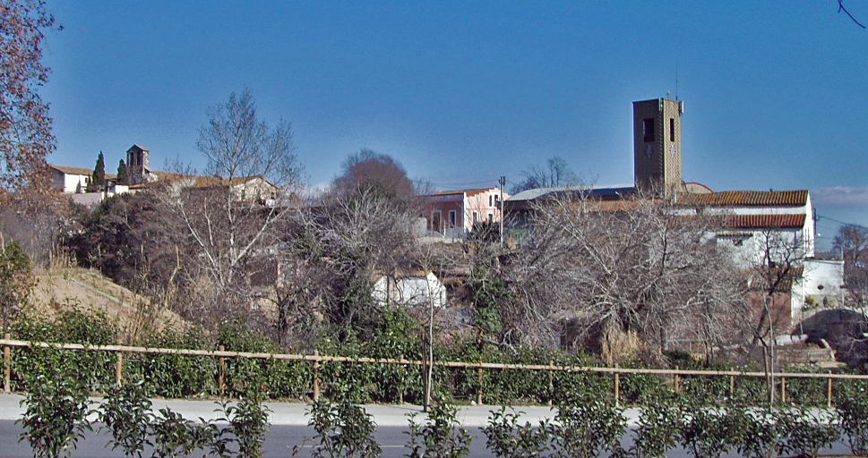 Canovelles - Old town - Vallès Oriental - Catalonia